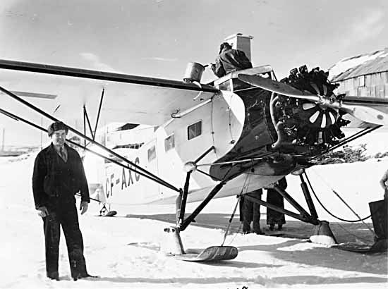 Pilot Everett Wasson with Fairchild 82 CF-AXC, on the river ice at Mayo